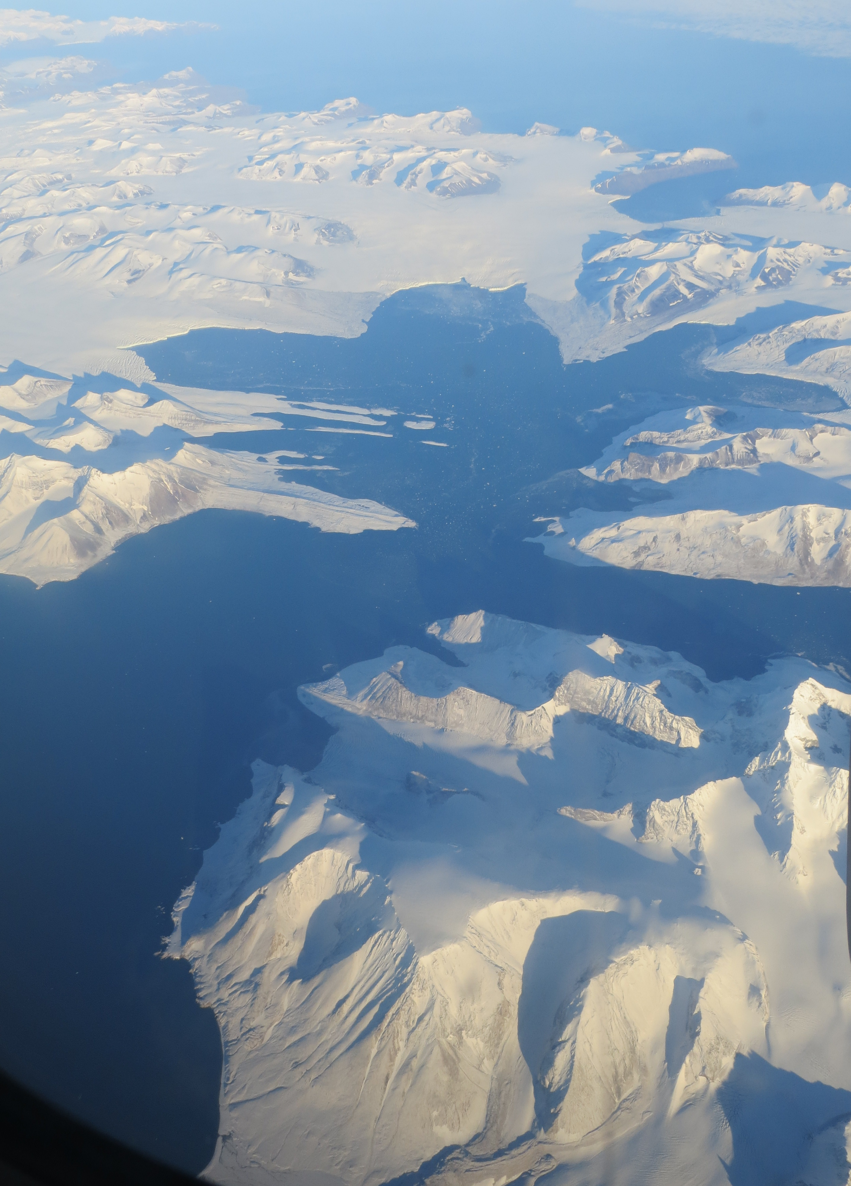 Aerial photo, from the west towards east, of the Sørkapp Land southernmost parts of Spitsbergen, Svalbard.